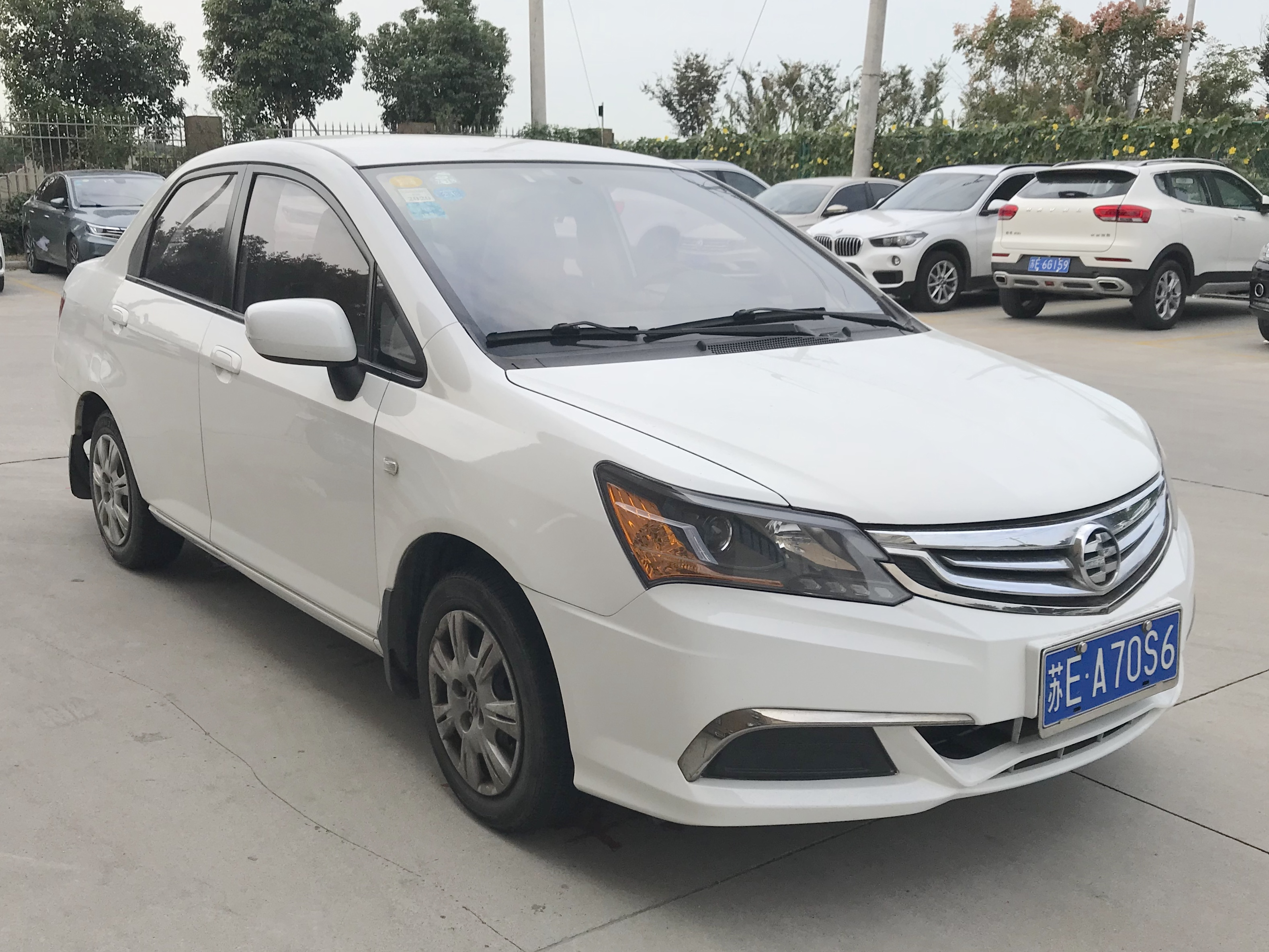 Everus S1 facelift front